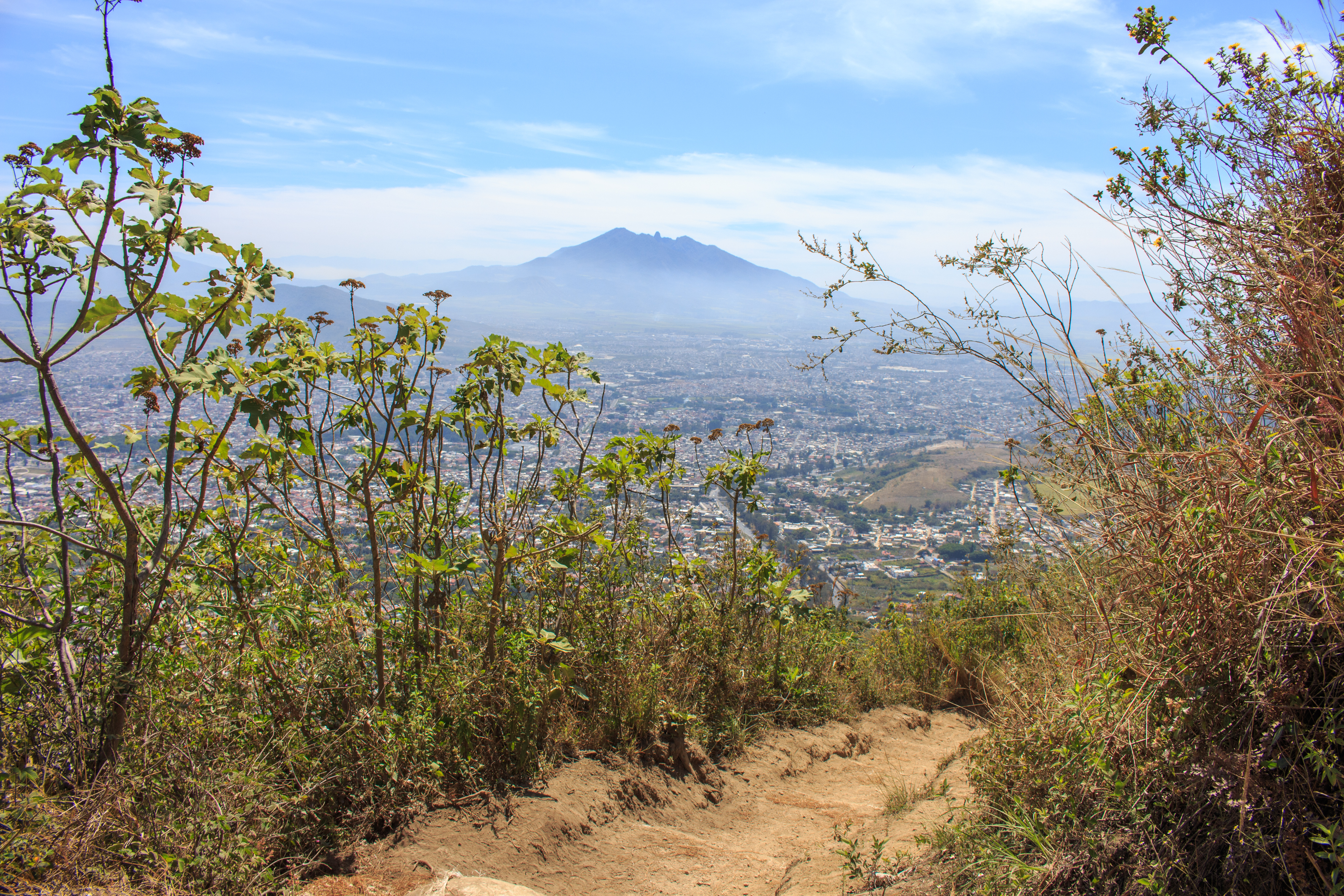 Trail leading to Tepic city, inside the area of the Sierra de San Juan.